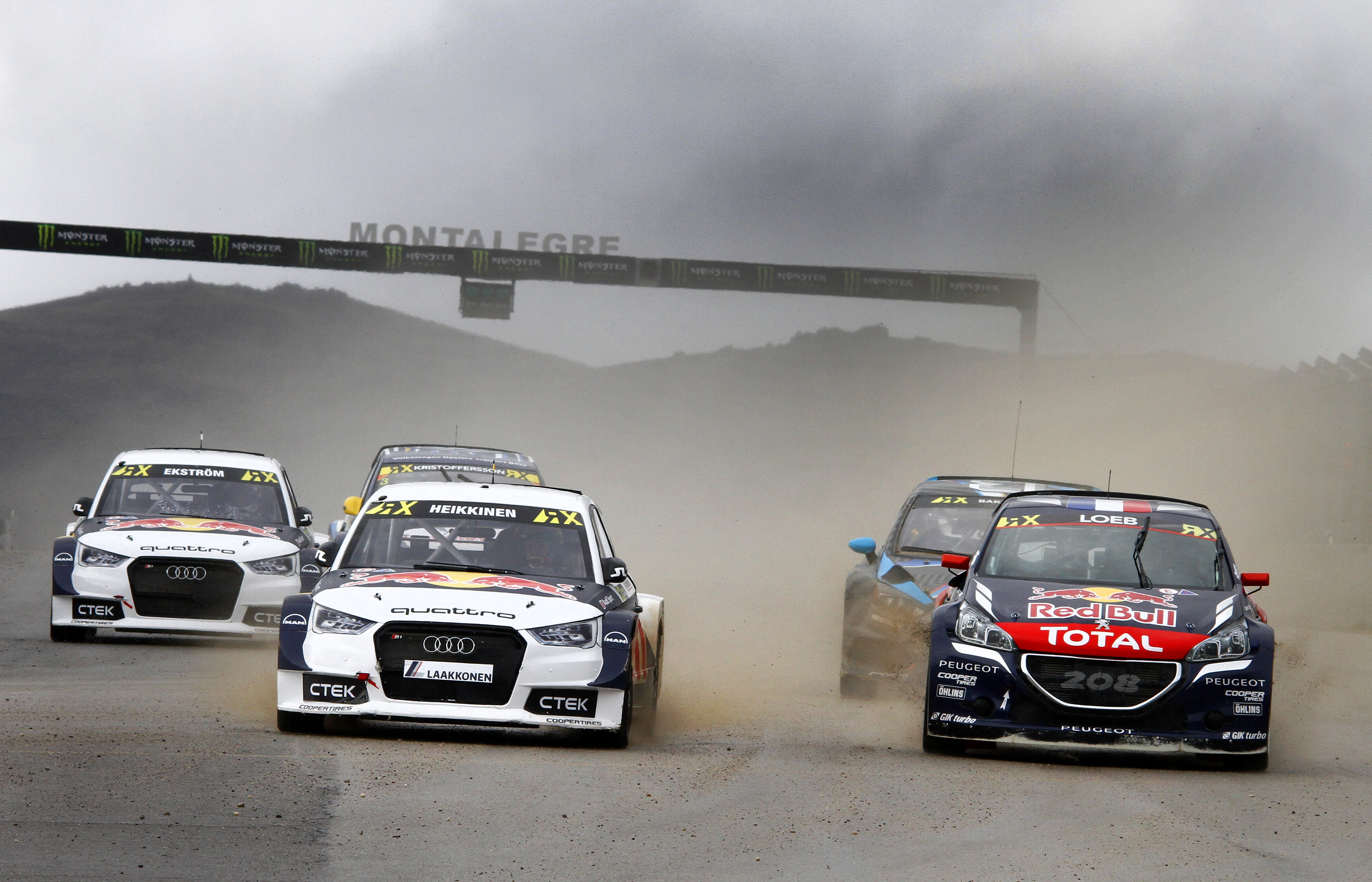 2016 FIA World Rallycross Championship // Round 01 // Montalegre, Portugal // 15-17 April, 2016 // Worldwide Copyright: EKS/McKlein